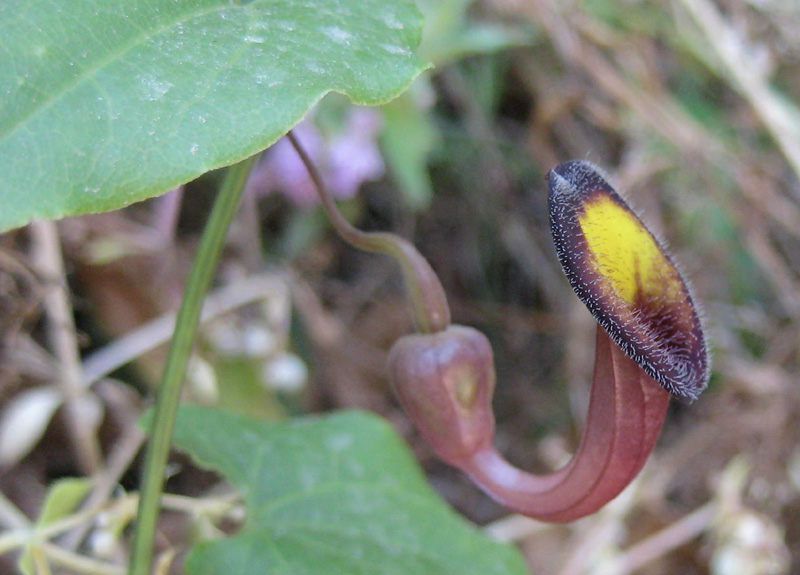 Aristolochia Sempervirens, Plants of Israel